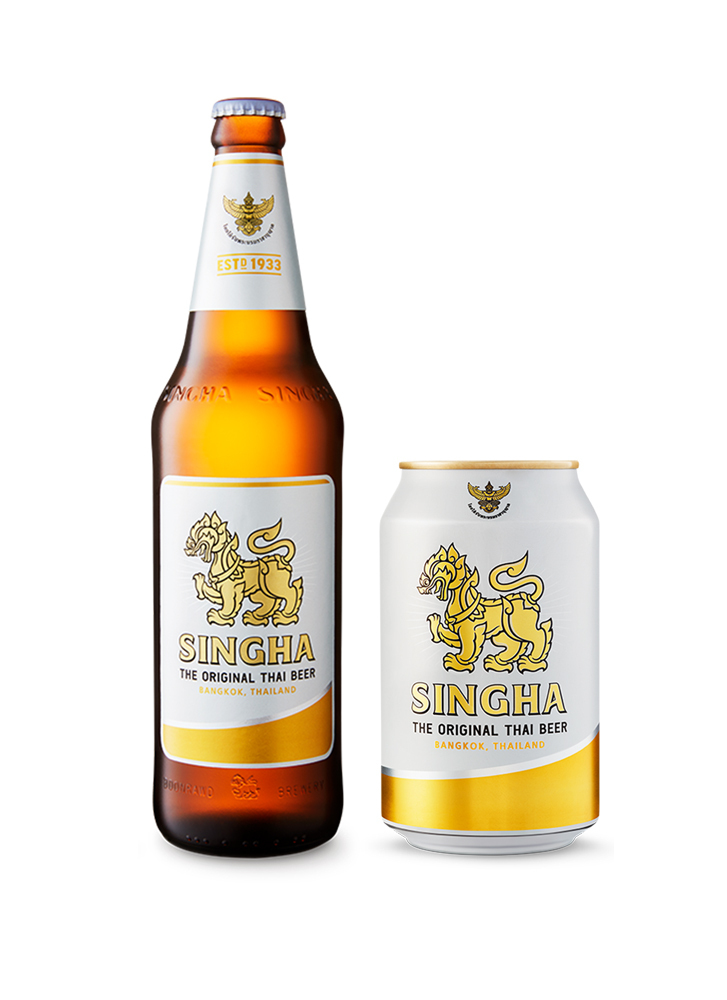 Singha Beer Bottle (620 ml.) and Can (320 ml.)